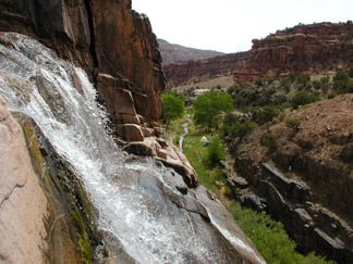 In the Dominguez-Escalante National Conservation Area in the Colorado Plateau region in southwestern Colorado. About a mile or so upstream from the confluence of Big and Little Dominguez Creeks you will find a magnificent waterfall and several large boulders with petroglyphs. A BLM National Conservation Area of the United States.